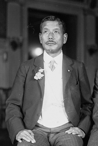 Dr. Juichi Soyeda of the Associated Chambers of Commerce of Japan and the Japanese American Society of Tokyo, on a visit to the United States where he was lobbying against proposed anti-Japanese legislation in California. (Source: Flickr Commons project, 2009 and New York Times, June 26 and July 2, 1913) (description from the image's summary of the Library of Congress)